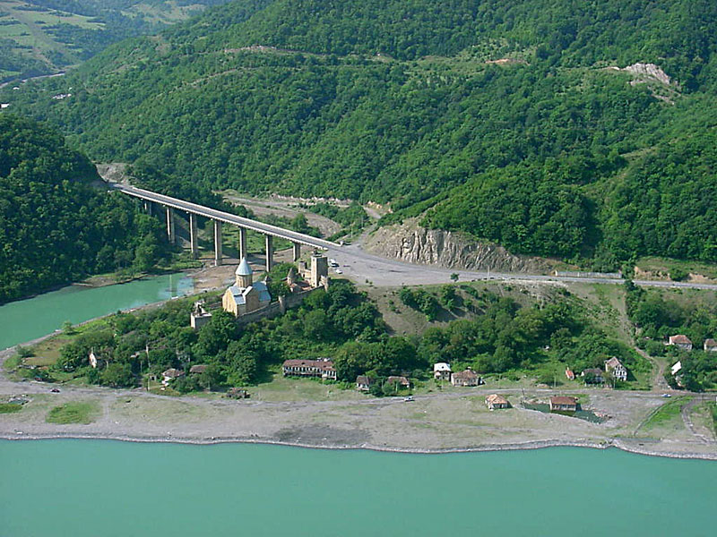 Ananuri